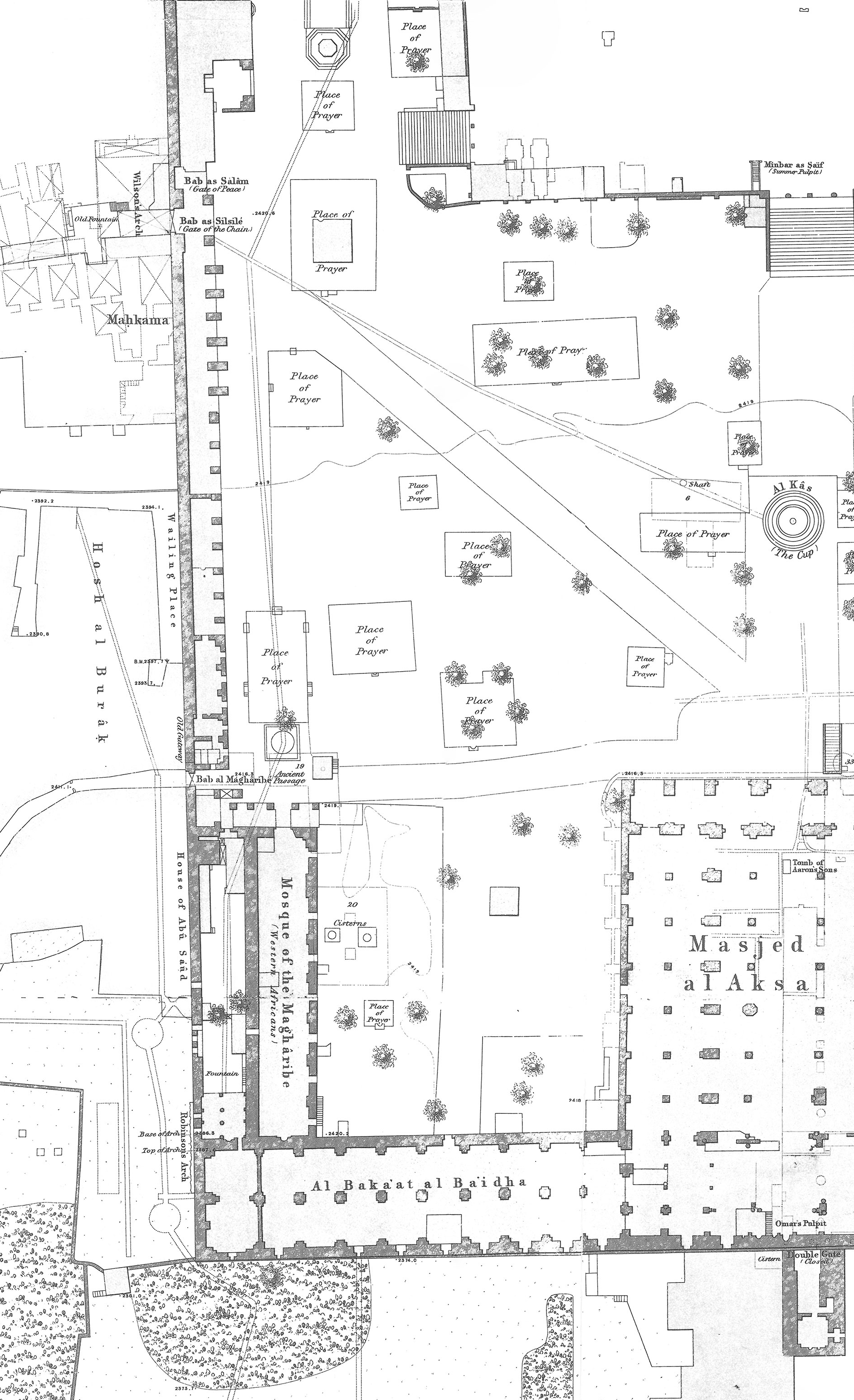 Portion of Wilson's map of the Haram el-Sharif (Temple Mount) in Jerusalem, showing the south-west corner.